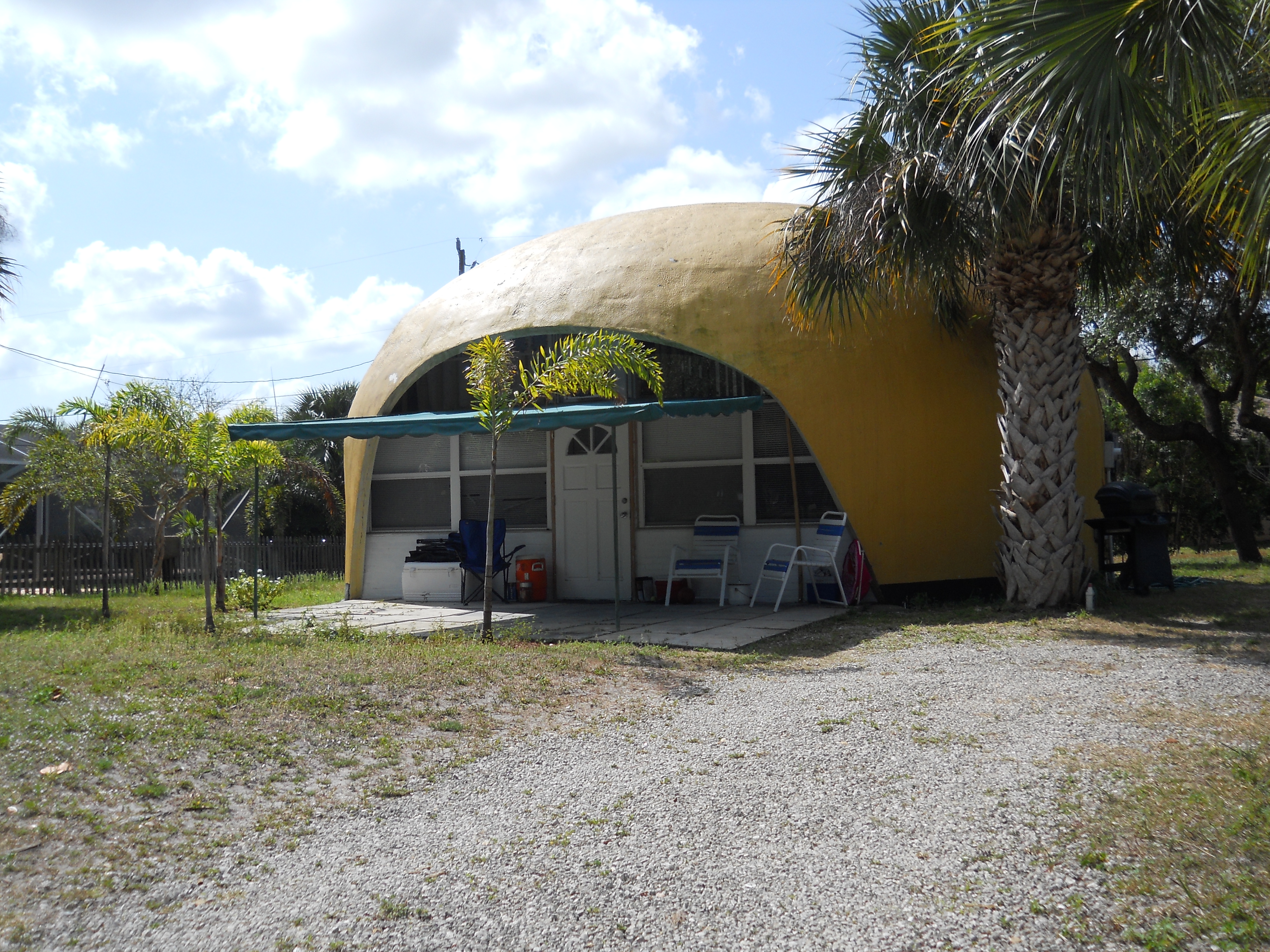 Yellow-painted Bubble House at 9096 SE Venus Street, Hobe Sound, Martin County, Florida: Closeup of front